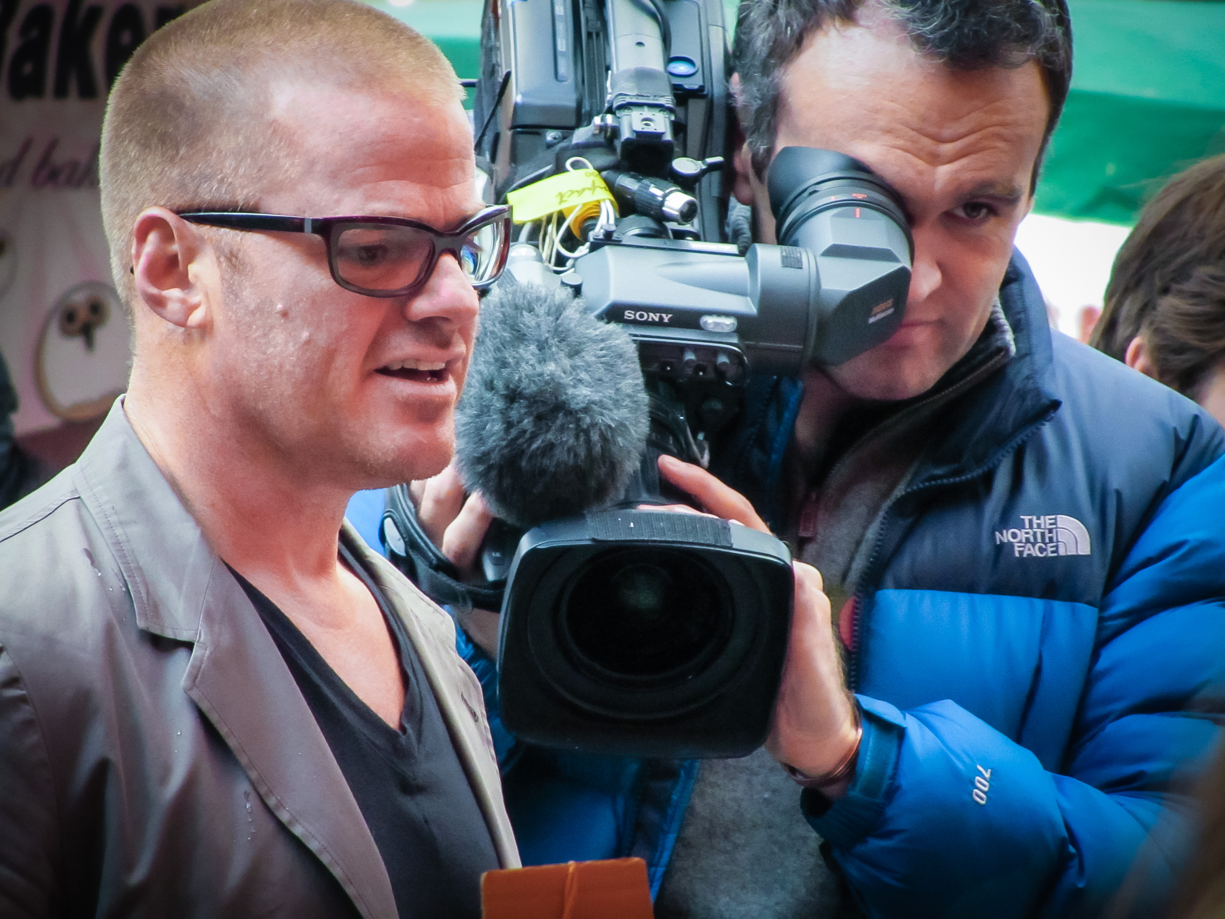 The famous TV chef buying food in Borough Market.